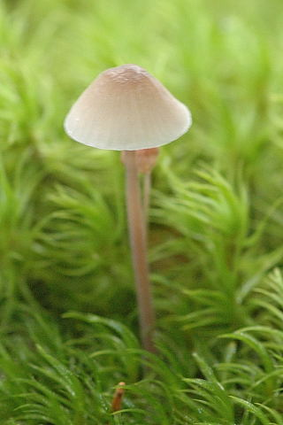 Mycena galopus from Commanster, Belgium. If you think this is a different taxon, please contact James Lindsey.